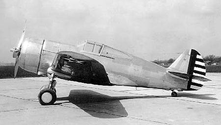 Curtiss P-36